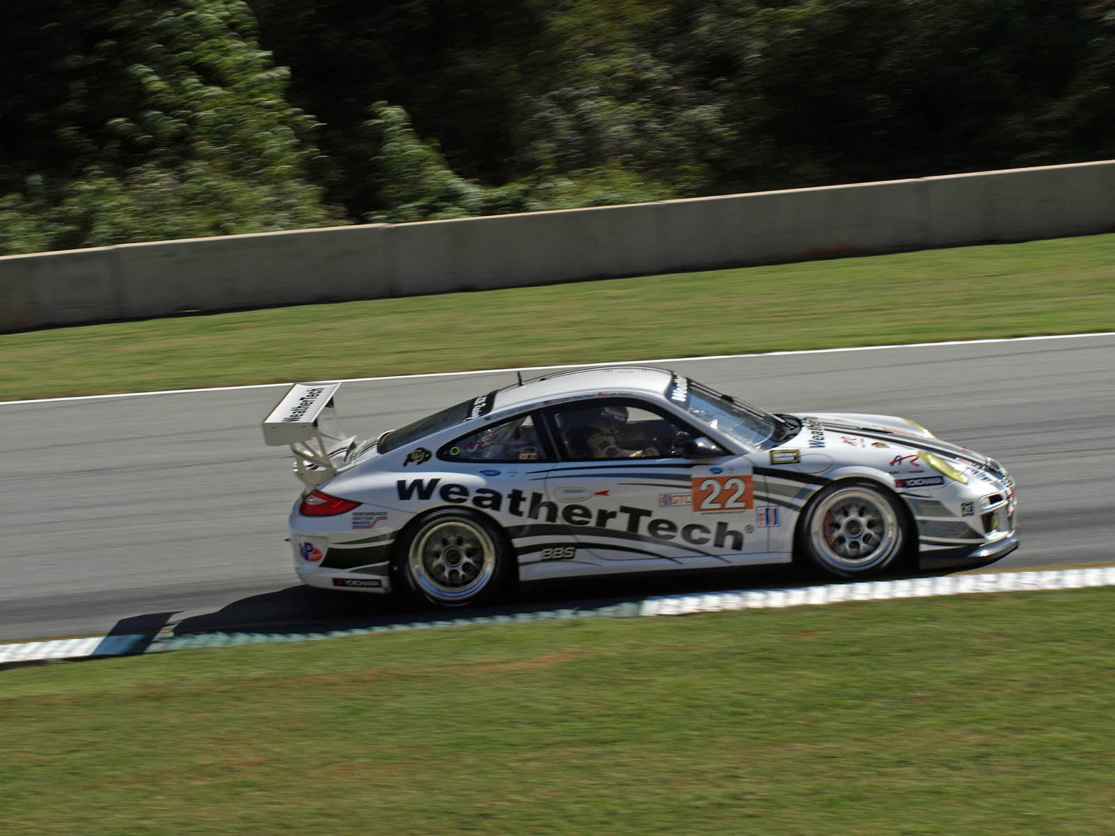 Leh Keen in the Alex Job Racing Porsche 997 GT3 Cup during qualifying for the 2012 Petit Le Mans